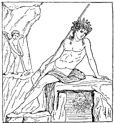 Narcissus by the spring. After a mural from Pompeii.